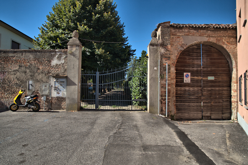 From the public road via Valera, behind the gate you can see a trace of the road that once ran along the terreplein